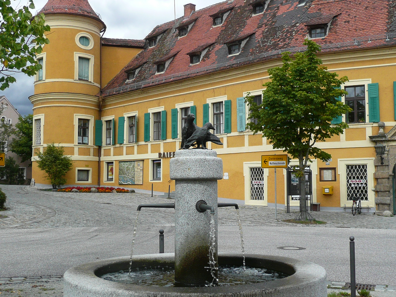 Private Castle in Wiesent main place